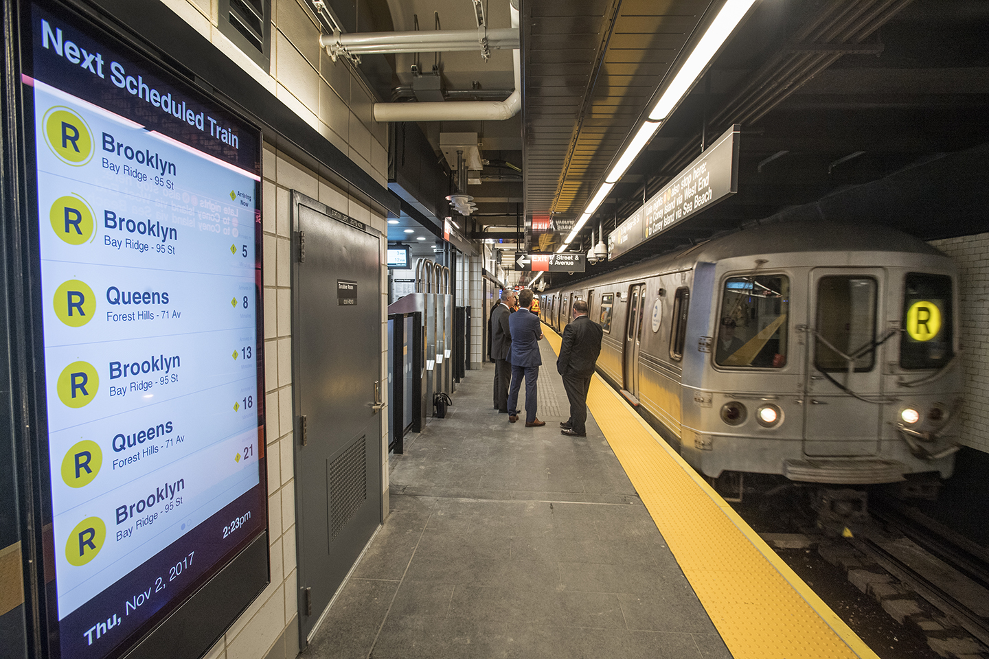 MTA Chairman Joseph Lhota and Managing Director Veronique "Ronnie" Hakim rode the first R train to the Prospect Av station which has reopened after an extensive renovation as p art of the Enhanced Station Initiative (ESI) on Thu., November 2, 2017. Photo: Metropolitan Transportation Authority / Patrick Cashin